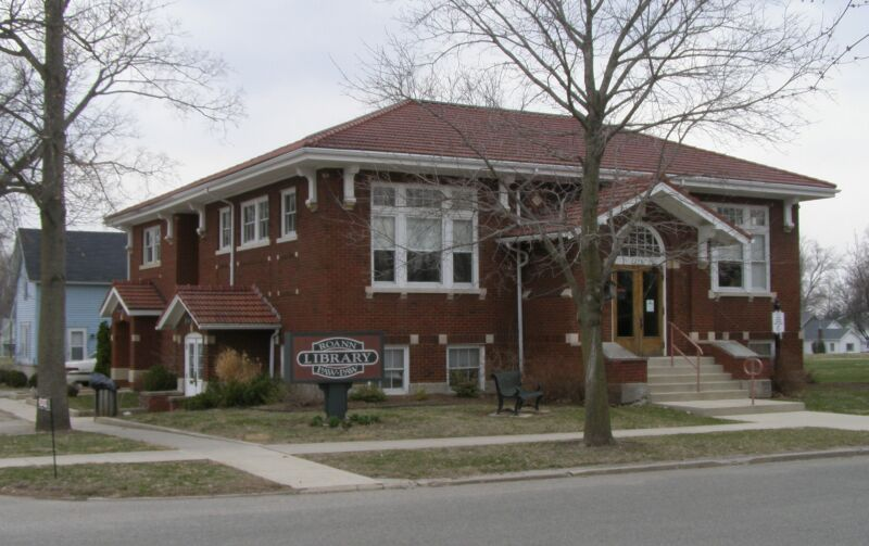 Public Library in Roann, Wabash County, Indiana built with a grant from the Carnegie Foundation.